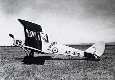 RAAF De Havilland DH82 Tiger Moth A17-285 on the ground. The Tiger Moth was the RAAF's standard primary trainer aircraft from 1940 to 1957.